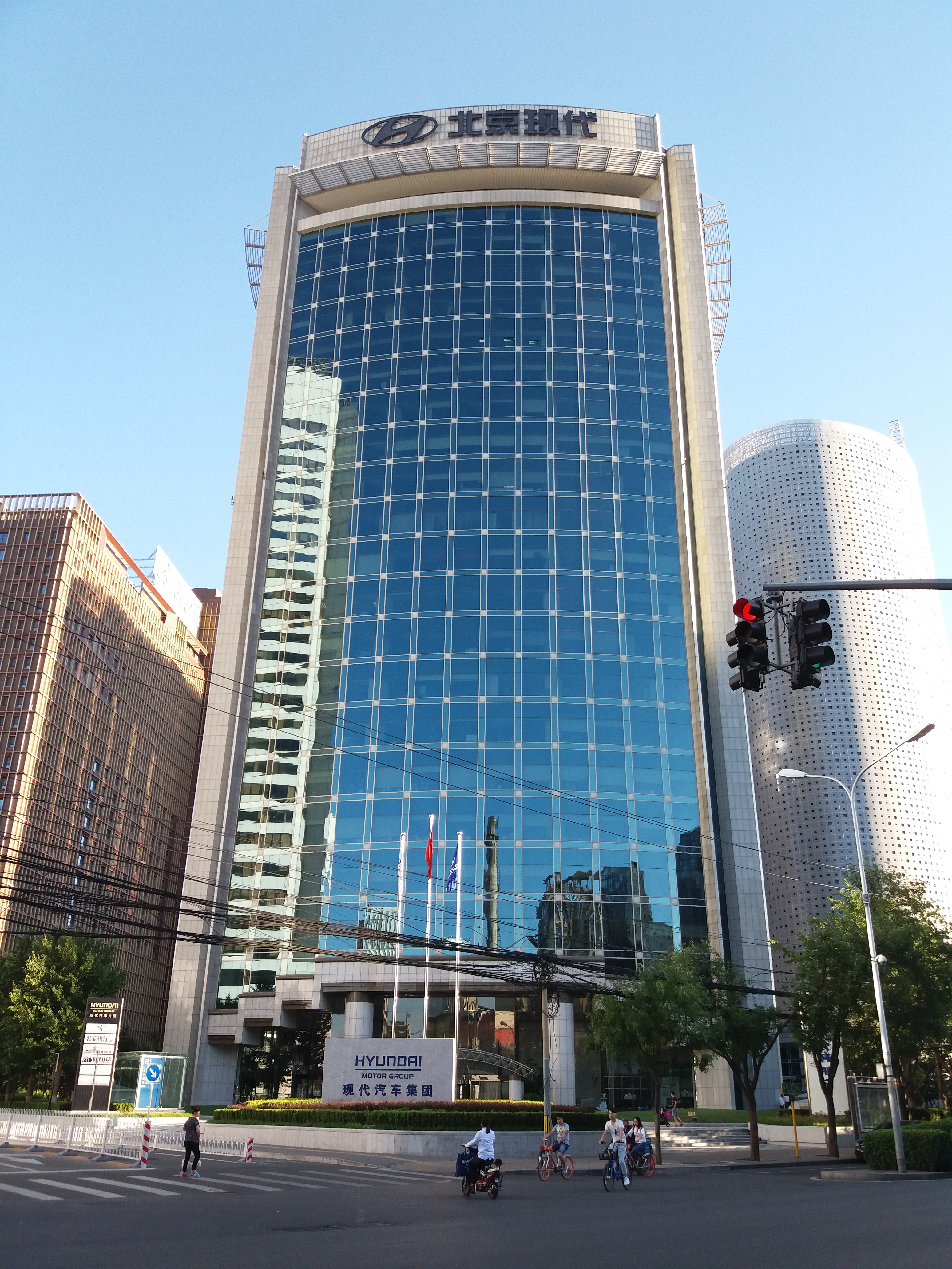 Hyundai Motor Office building in Beijing